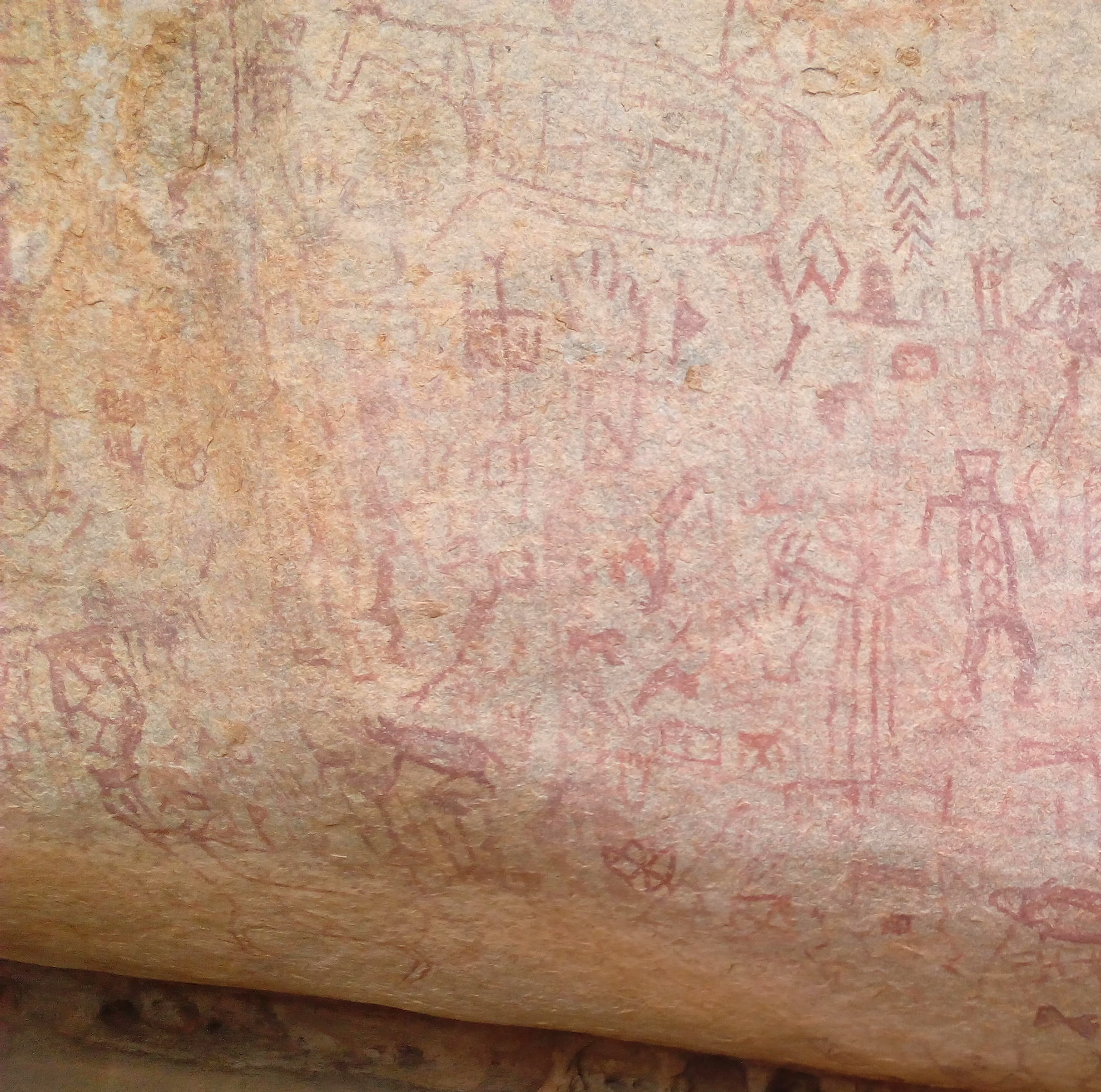 Rock art in Balichakra near Yadgir town ಕನ್ನಡ: ಯಾದಗಿರಿ ಪಟ್ಟಣದ ಬಳಿಚಕ್ರ ಹಳ್ಳಿಯಲ್ಲಿರುವ ಆಧಿಮಾನವ ಕಾಲಾದ ರೇಖಾ ಚಿತ್ರಗಳು